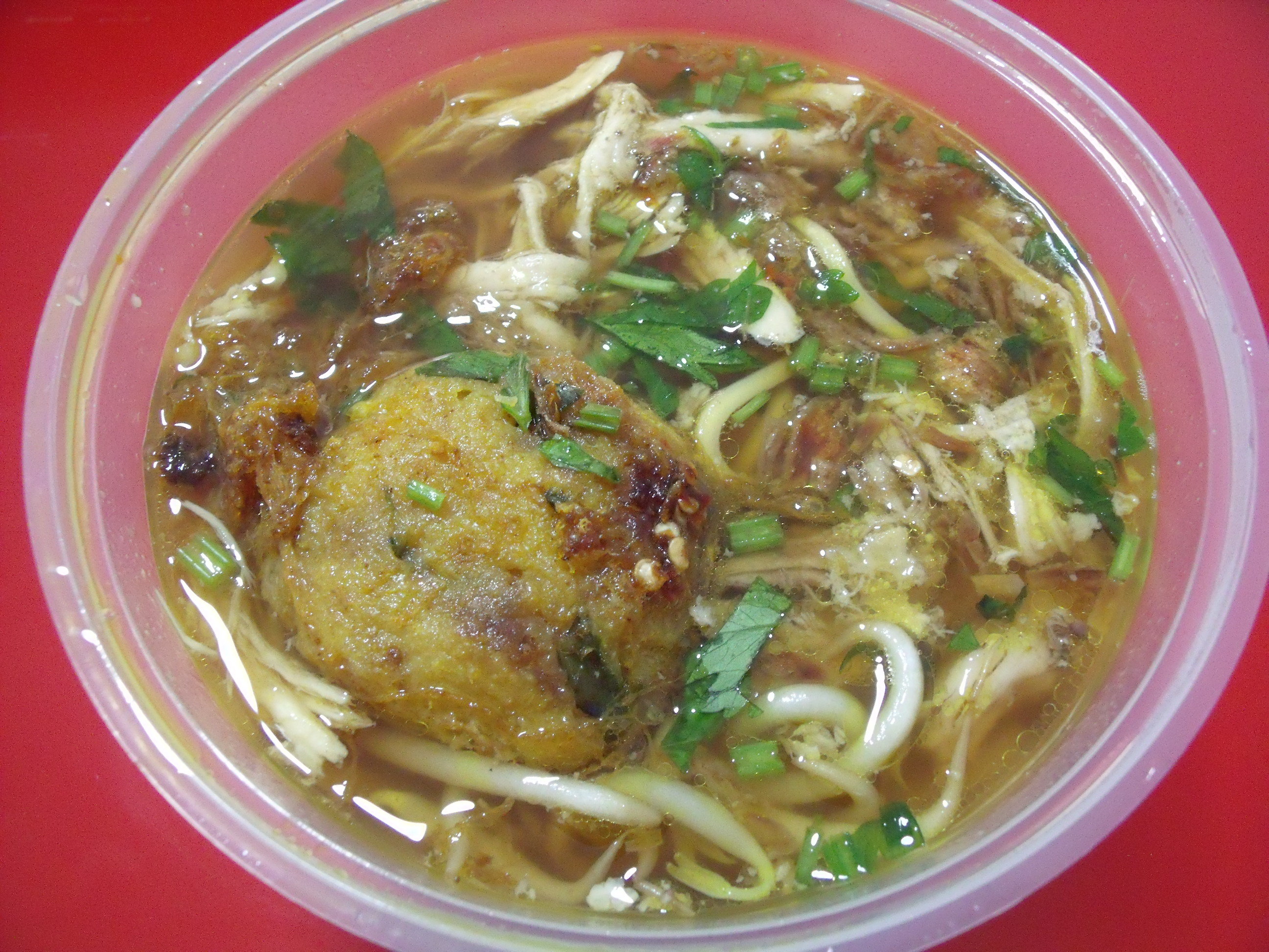 Mee soto, my lunch from Bukit Batok today.